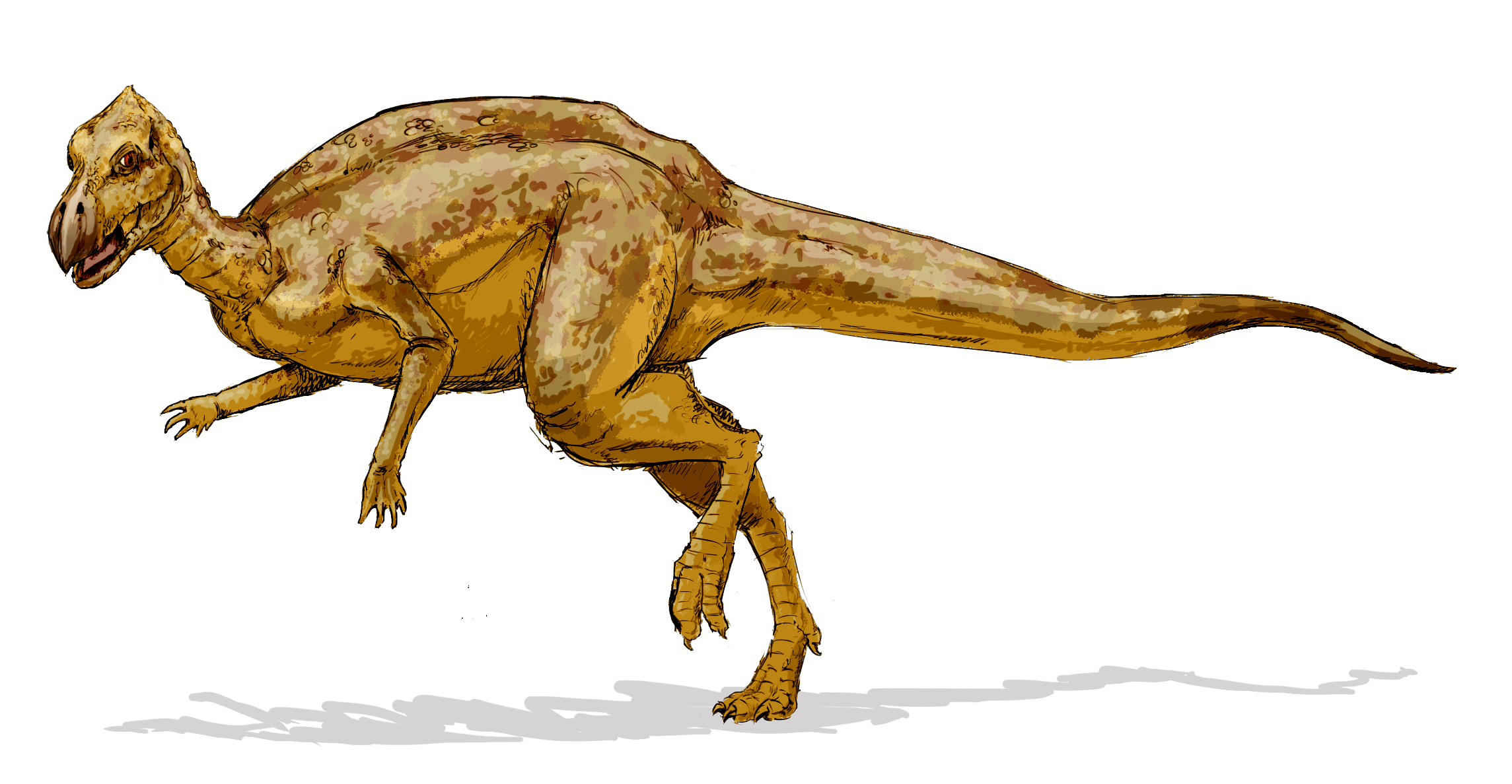 Zalmoxes was a genus of dinosaur from the Late Cretaceous. It is classified as an Iguanodont. The type species is Z. robustus; another is described as Z. shqiperorum. Both species were found in Romania. Additional material is known from Austria, formerly described as Mochlodon suessi.